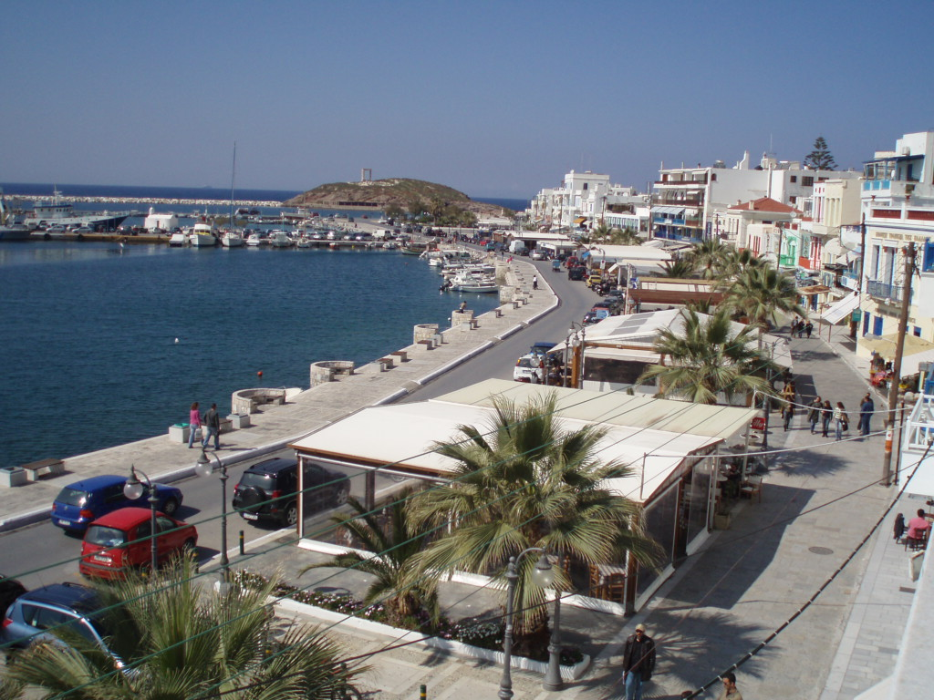 Alongside of port of Naxos island